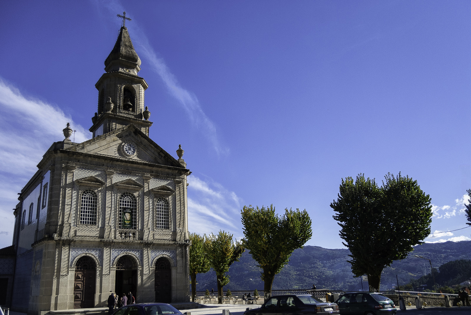 Sanctuary of Sao Bento da Porta Aberta, Terras de Bouro. Braga.